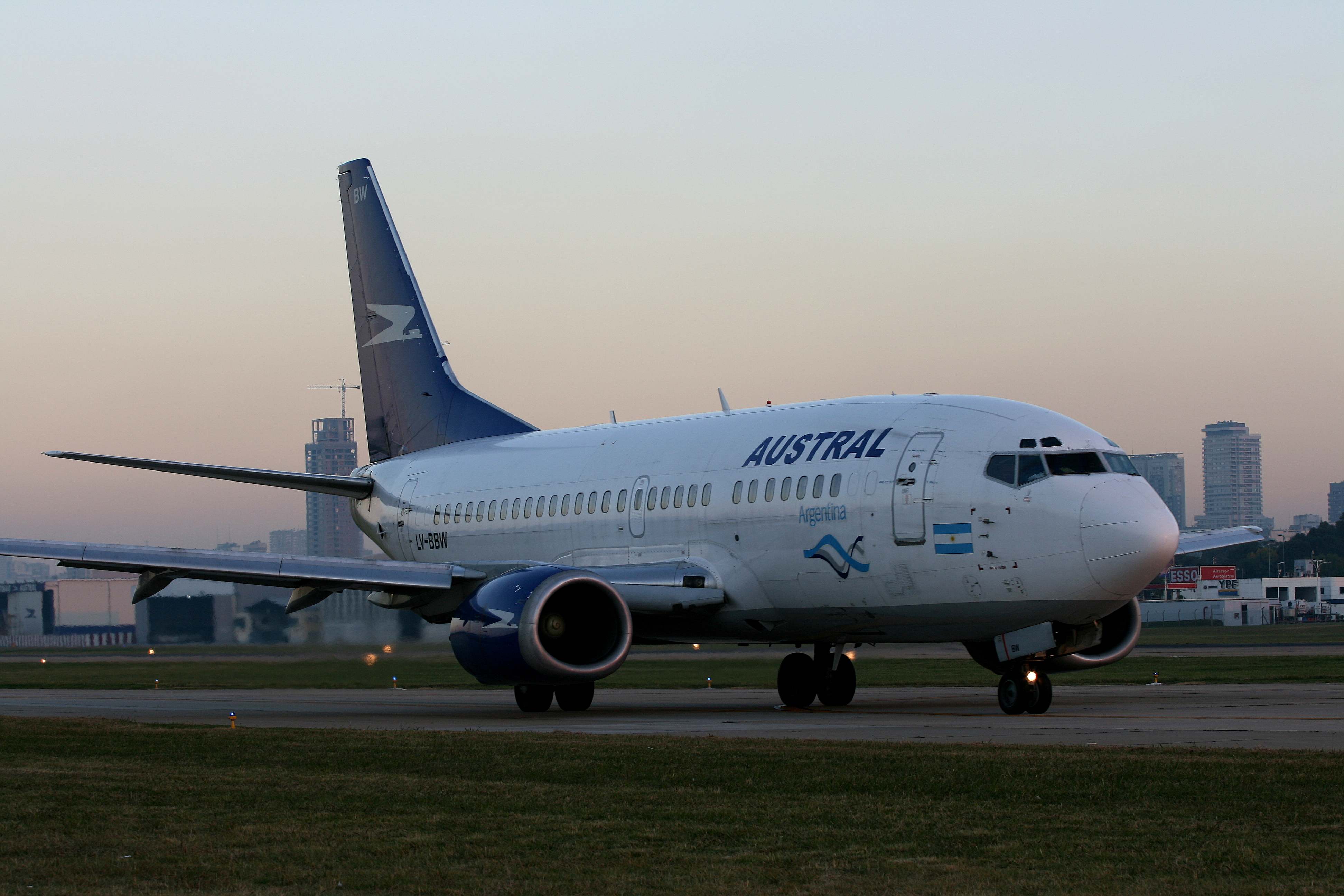 Taken at Jorge Newbery Airport, Buenos Aires, Argentina.